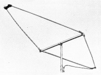 A UHF television antenna from 1952. It is a rhombic antenna, a directional antenna which has the broad bandwidth to cover the US UHF band of 470 to 890 MHz. The rhombic is a nonresonant traveling wave antenna so the length of the elements is not critical, each of the 4 sides is several UHF wavelengths long. The antenna is composed of two wires which are connected at the near end (upper left) with a resistor equal to the characteristic impedance of 470 - 500 ohms, and at the far end to the 300 ohm Twin lead feedline to the TV. The beam pattern is unidirectional off the near end. It has gain of 5 dB at low end of the band rising to 10 dB.at the high end.